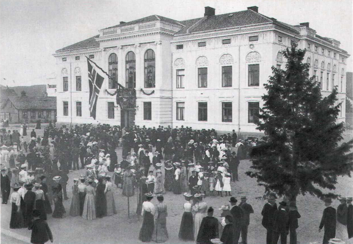 The newly-built Porsgrunn City Hall (architect Haldor Larsen Bøvre) in August 1905 during the referendum of the dissolution of the Norwegian-Swedish union. The tree and people in the foreground were added by the photographer to give "life" to the picture.